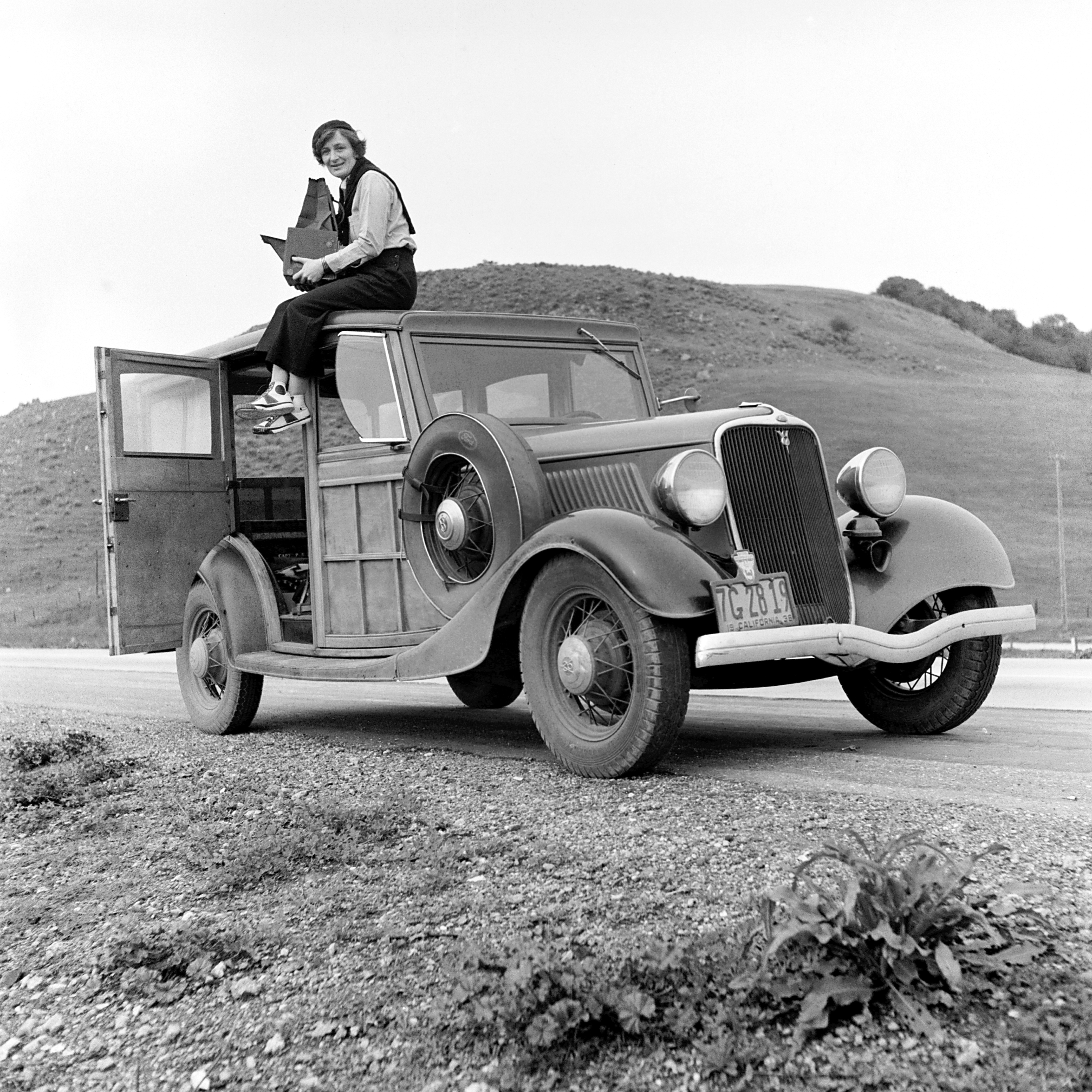 Dorothea Lange, Resettlement Administration photographer, in California. The car is a Ford Model V8 (more exactly, this one is Model 40). The camera is a Graflex 4x5 Series D.